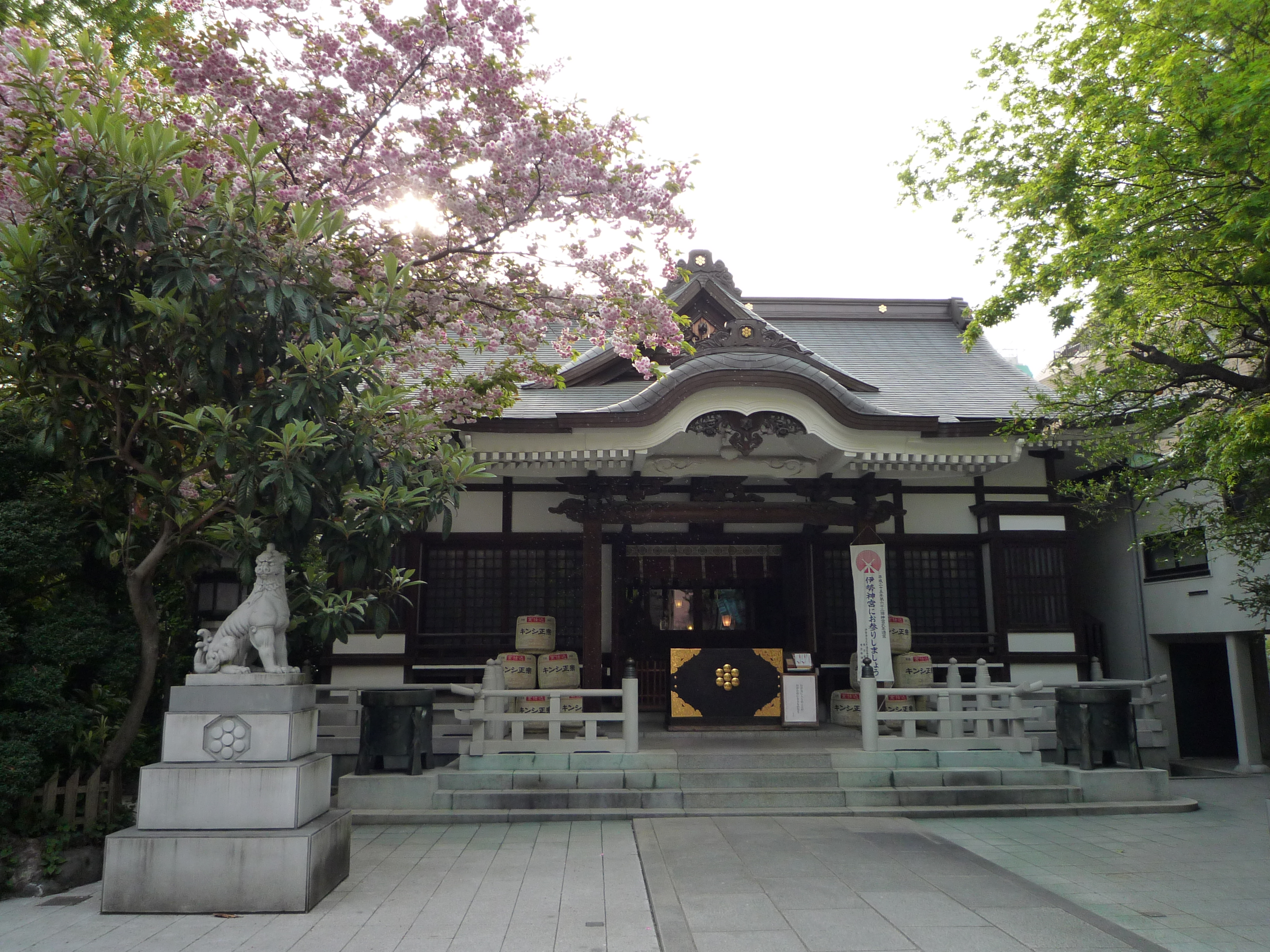 Torigoe Srine, Taito Ward, Tokyo, Japan